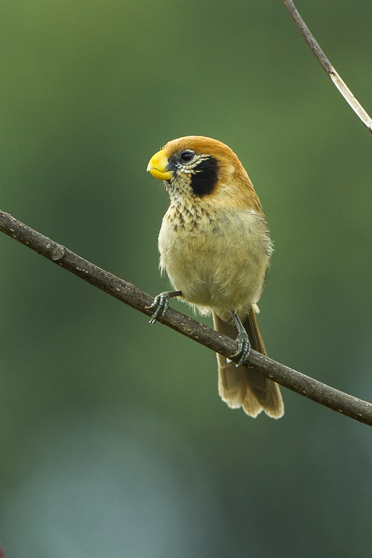 Spot-breasted Parrotbill - Chiang Mai - Thailand_S4E9657